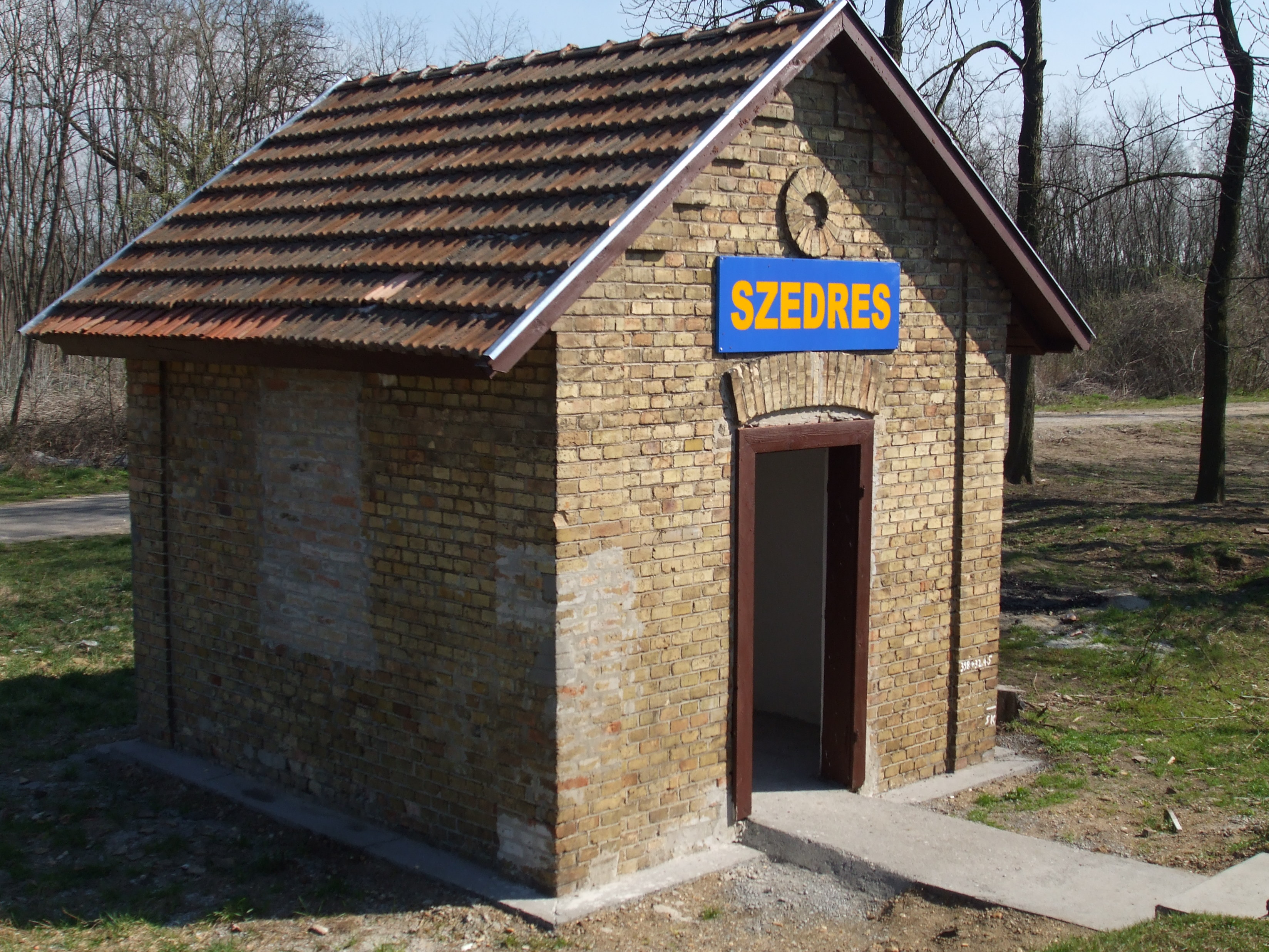 Railway halt at Szedres on the Sárbogárd–Bátaszék line